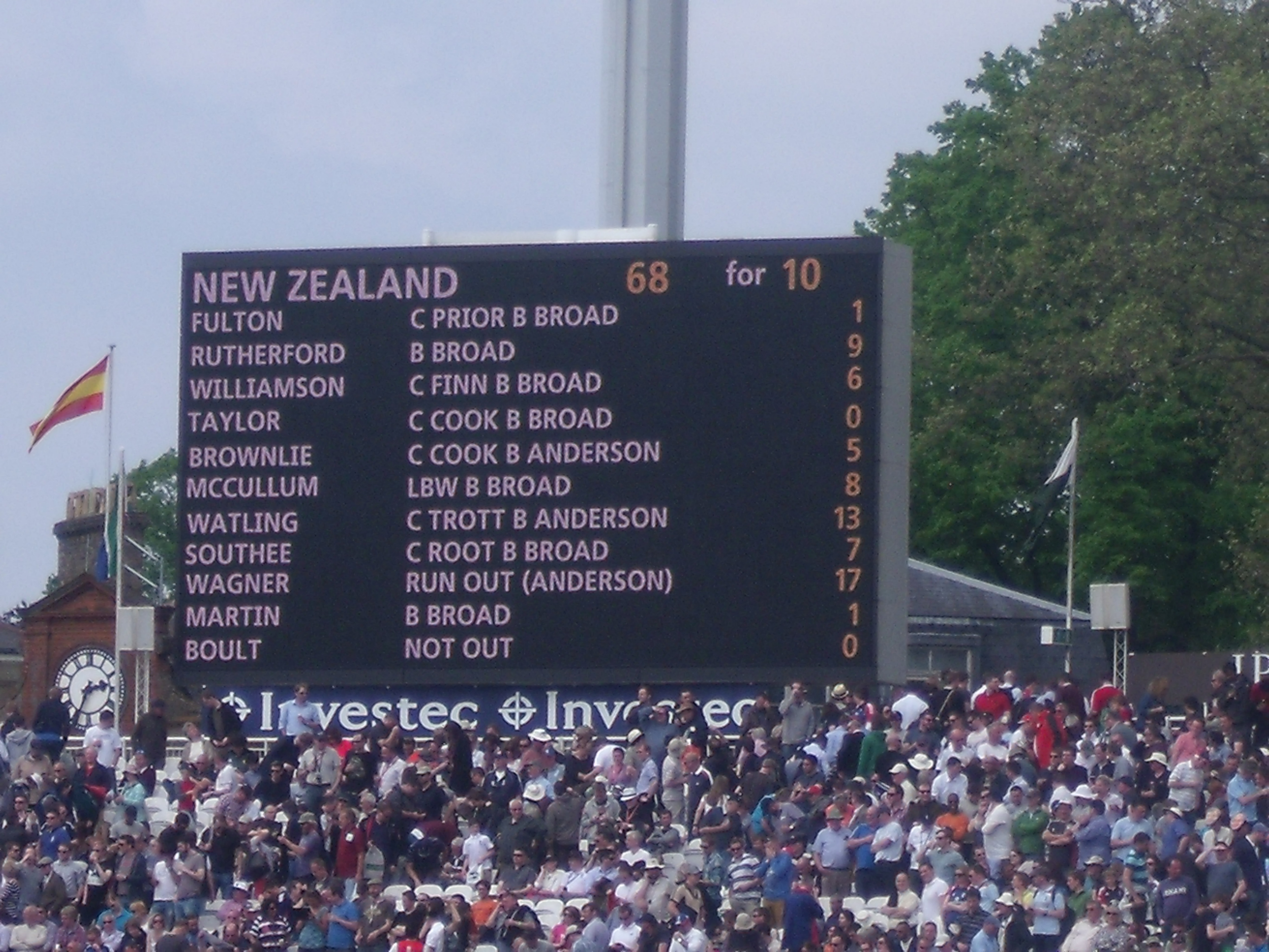 Lords Test Match, England v NZ Score Board